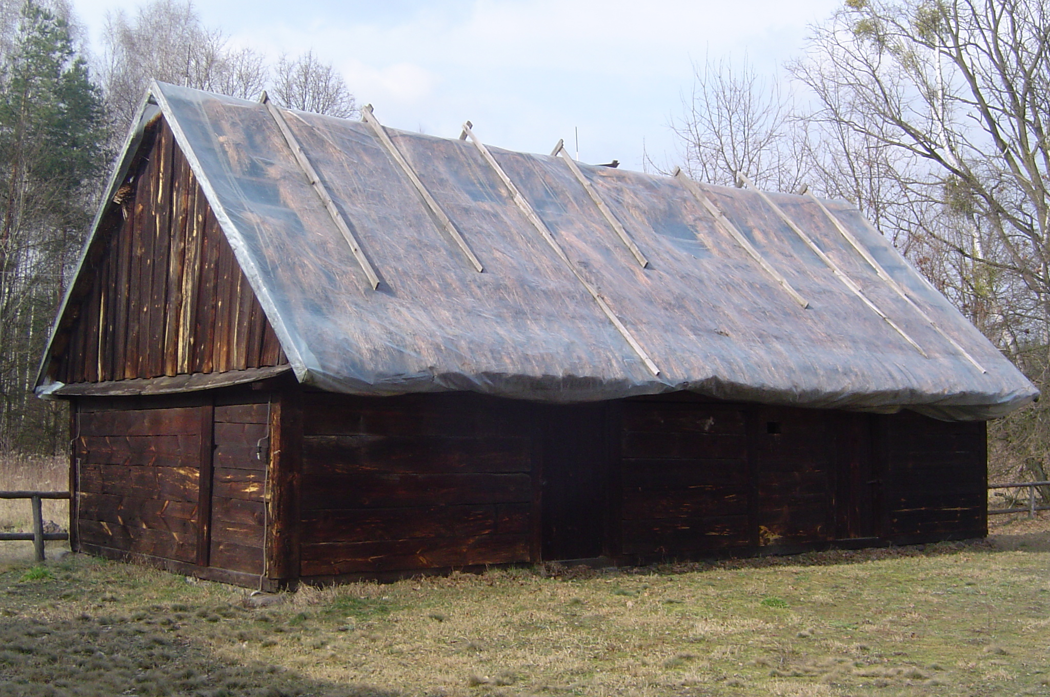 open air museum in Granica